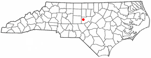 Category:North Carolina Dot Maps